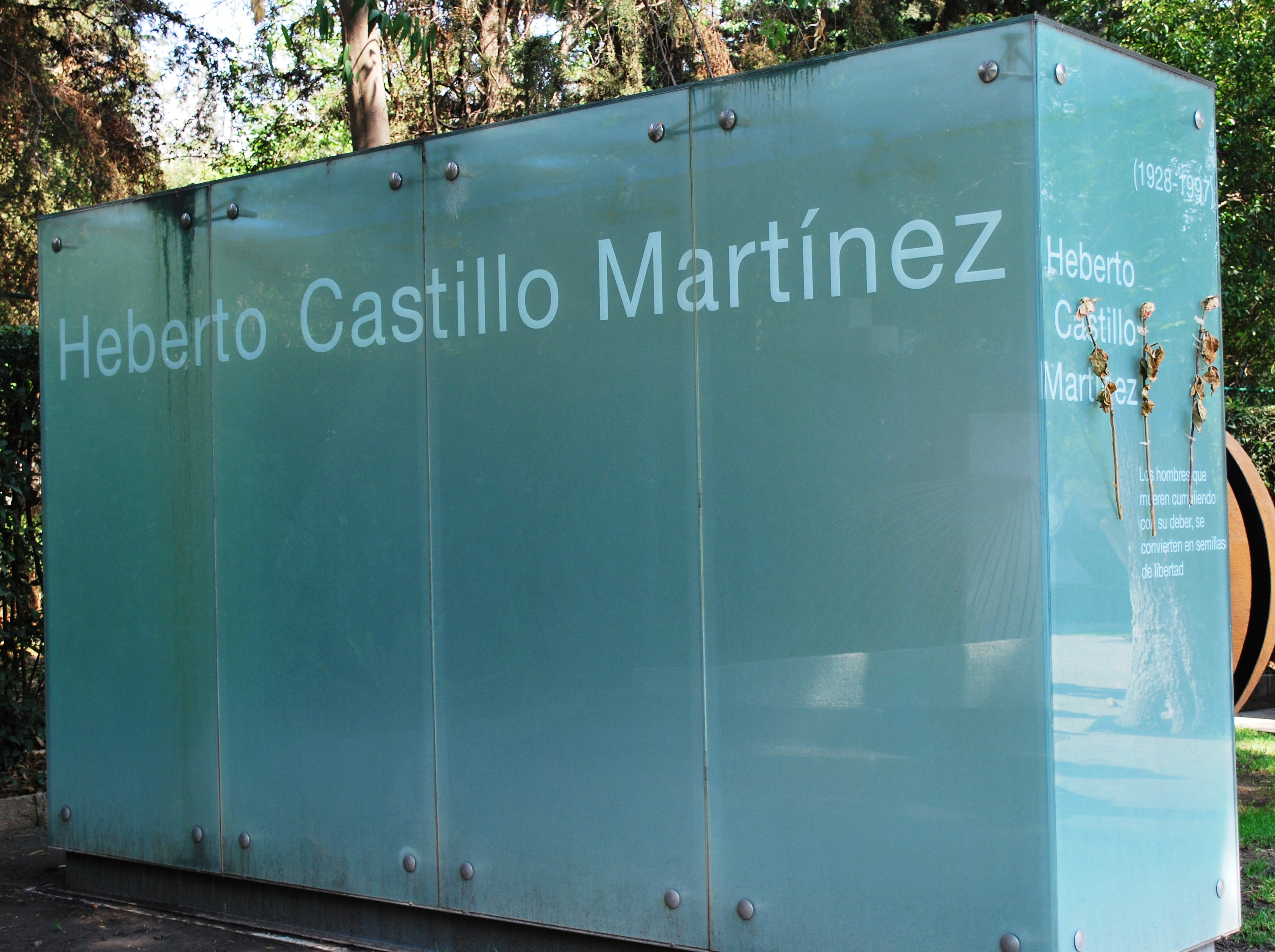 Tomb of Herberto Castillo Martinez in the Panteon Civil de Dolores cemetery in Mexico City